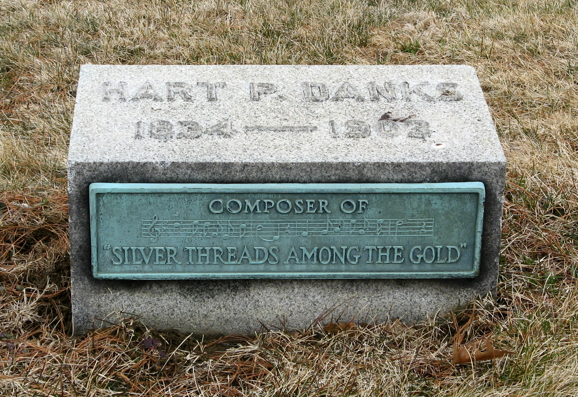 Photograph of the grave of Hart Pease Danks, famous 19th century American composer.